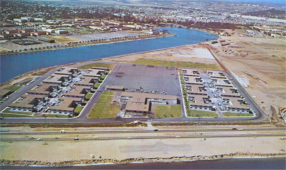 Overhead shot of Camp Nimitz at the Naval Training Center in San Diego, CA, circa 1960. This area was constructed in 1954-1955, and was where recruits would spend their first three weeks in bootcamp. This area consisted of 16 barracks buildings (left and right), the marching grinder (center top), and mess hall/galley (Center). Later expansions added two 3-story barracks (Buildings 88-89,1967), two 4-story classroom/barracks buildings (Buildings 479-480, 1971), and a new Recruit Receiving and Outfitting center (Building 557, 1978). Today, the barracks on left, and the mess hall have been demolished for a parking lot for the San Diego airport. The grinder is now home to the San Diego Metropolitan Wastewater Department. Only the barracks on the right are still standing today; they are used for fire training exercises by the San Diego Fire Department. The structures built in 1967, 1971, and 1978 are still standing as well.